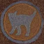 Shoulder Sleeve Insignia for the US 81. Infantery Division (Wildcats) during World War I